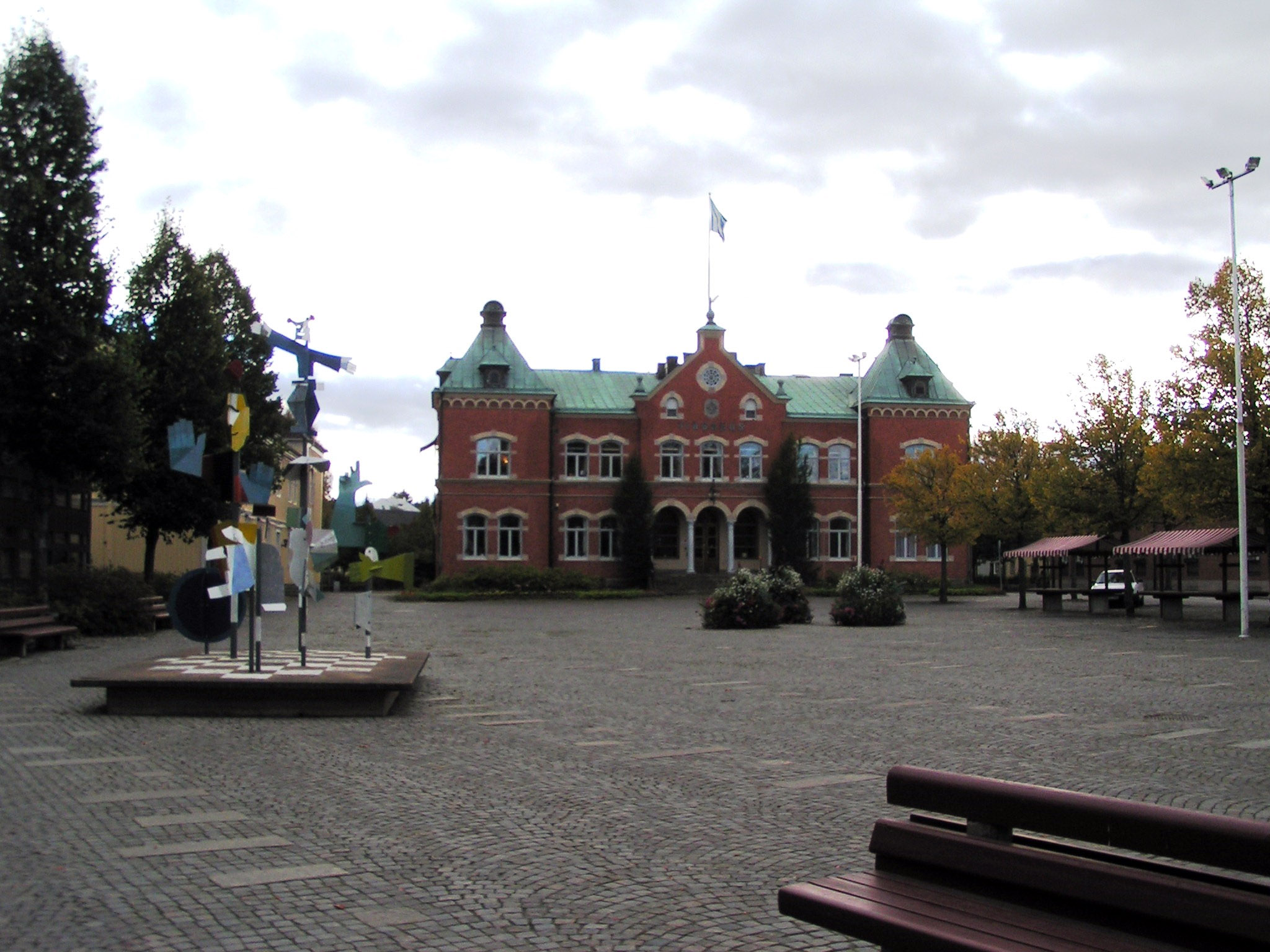 Värnamo, Sweden, Market place.